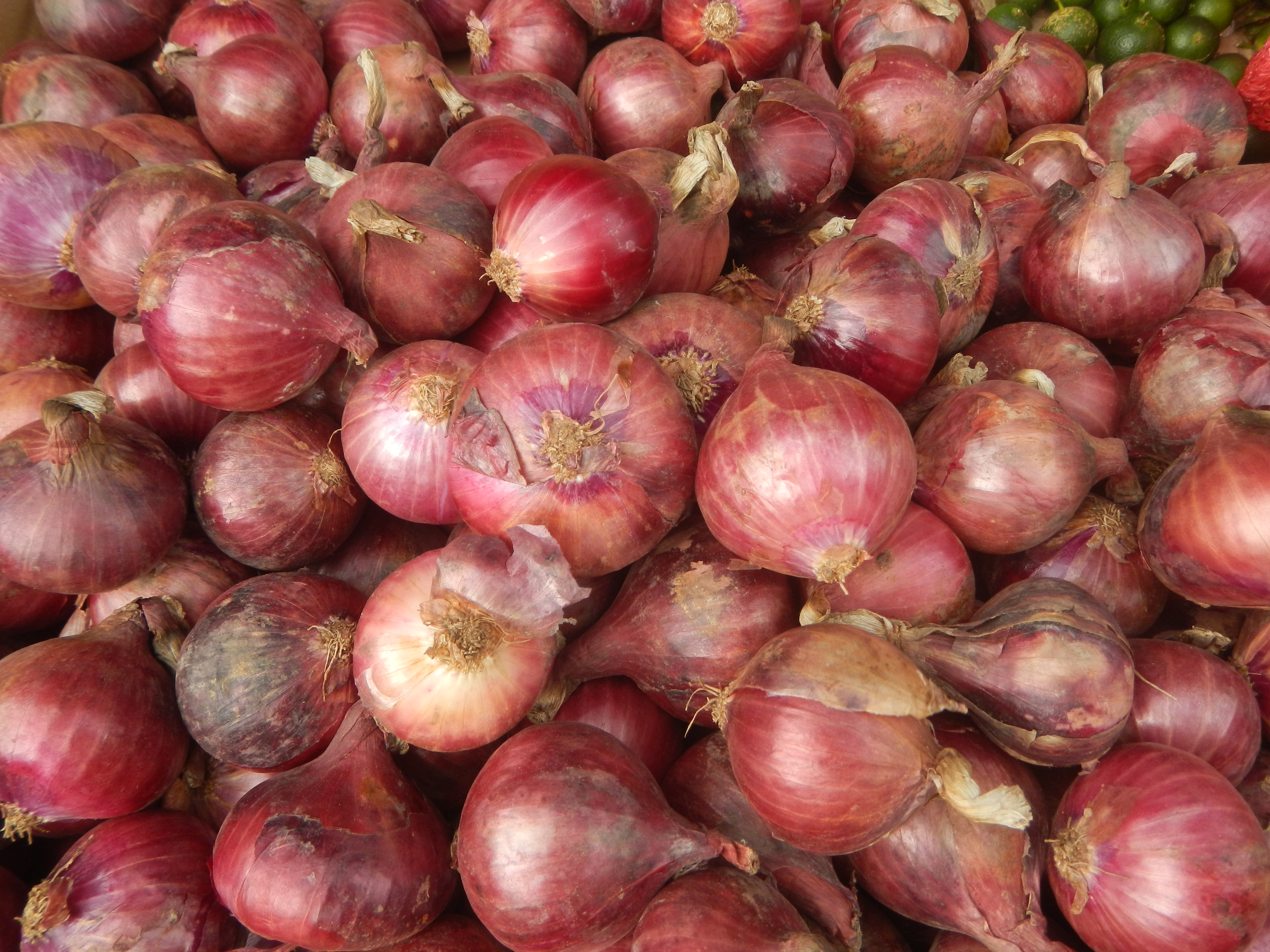 Talbos ng Kamote The sweet potato (Ipomoea batatas) Sweet potato Luyang Dilaw Atis Longans Dimocarpus longan Salt trade Kalabasa Onions in the Philippines Garlic Philippines photos taken in Barangay Poblacion 14°57'17"N 120°54'2"E Baliuag, Bulacan, Bulacan province (Note: Judge Florentino Floro, the owner, to repeat, Donor Florentino Floro of all these photos Judge Floro hereby donate gratuitously, freely and unconditionally all these photos to and for Wikimedia Commons, exclusively, for public use of the public domain, and again without any condition whatsoever).